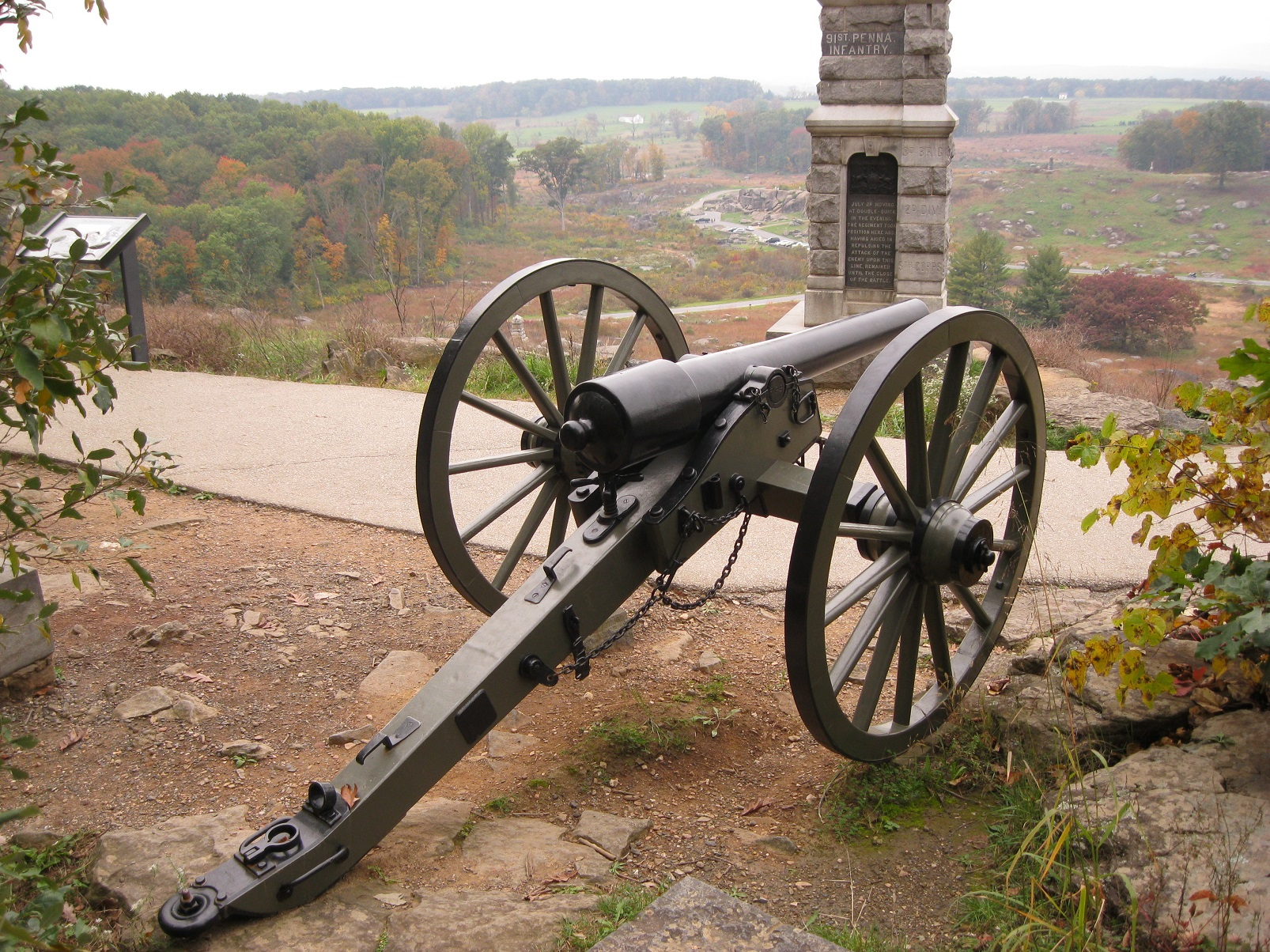 Photo shows a 10-pounder Parrott rifled gun at Little Round Top at Gettysburg National Military Park on Sykes Avenue in Gettysburg, PA. View is toward the west, overlooking Plum Run and Devil's Den.